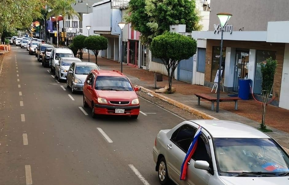 A main street in Encarnación, Paraguay